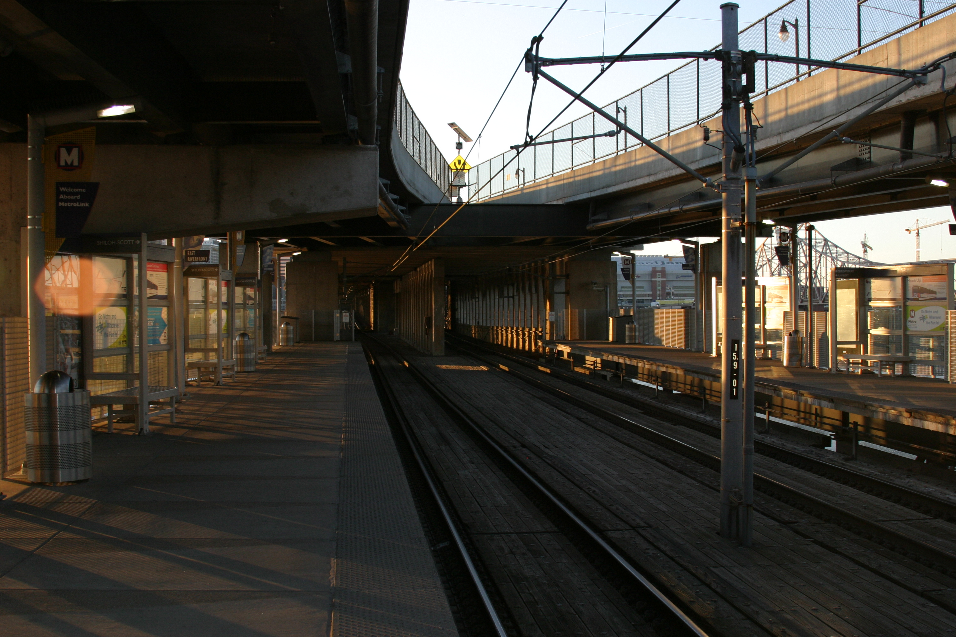 This is a picture of the East Riverfront MetroLink Station in East St. Louis, Illinois